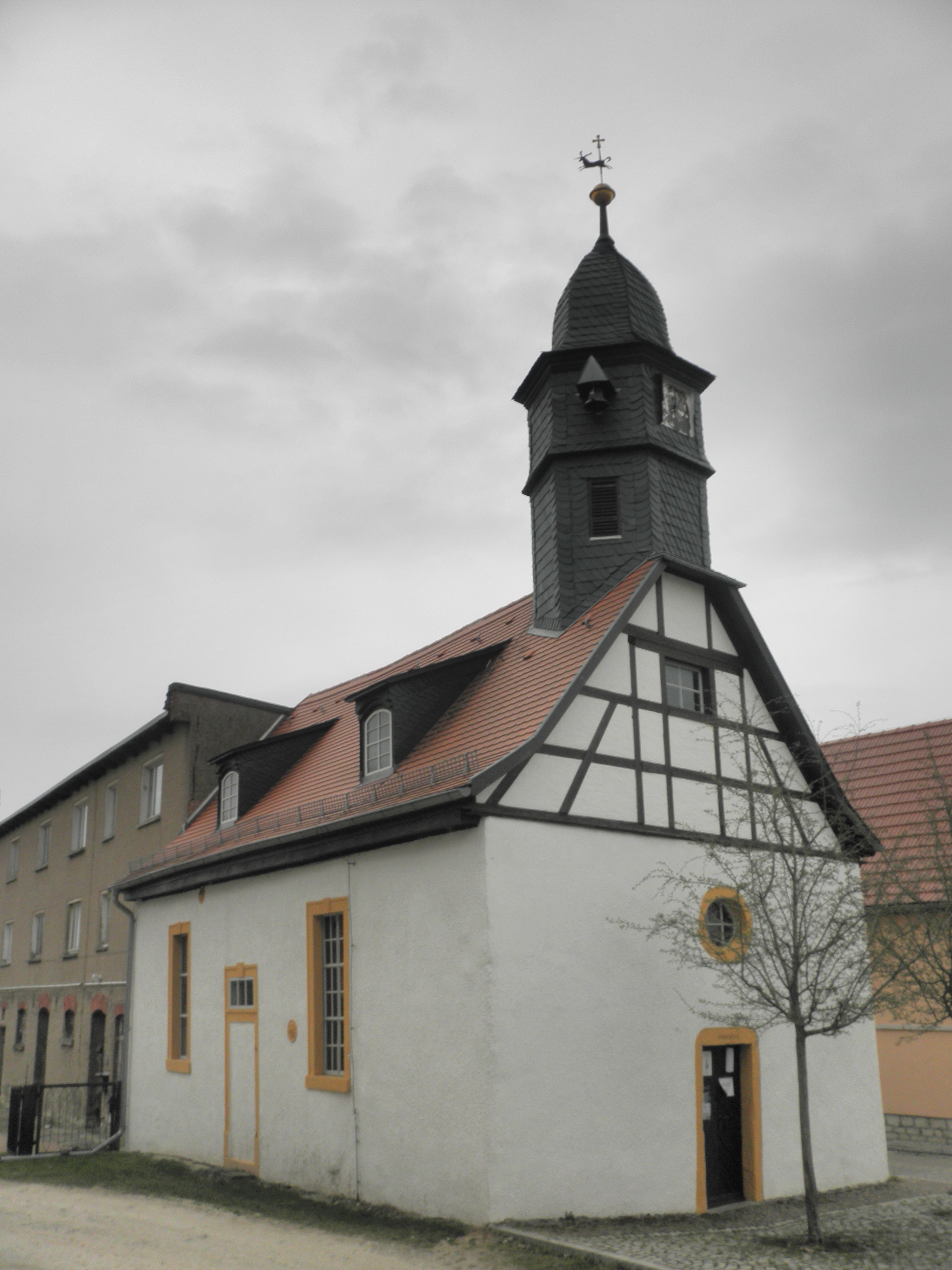 Church in Bergern (Bad Berka) in Thuringia